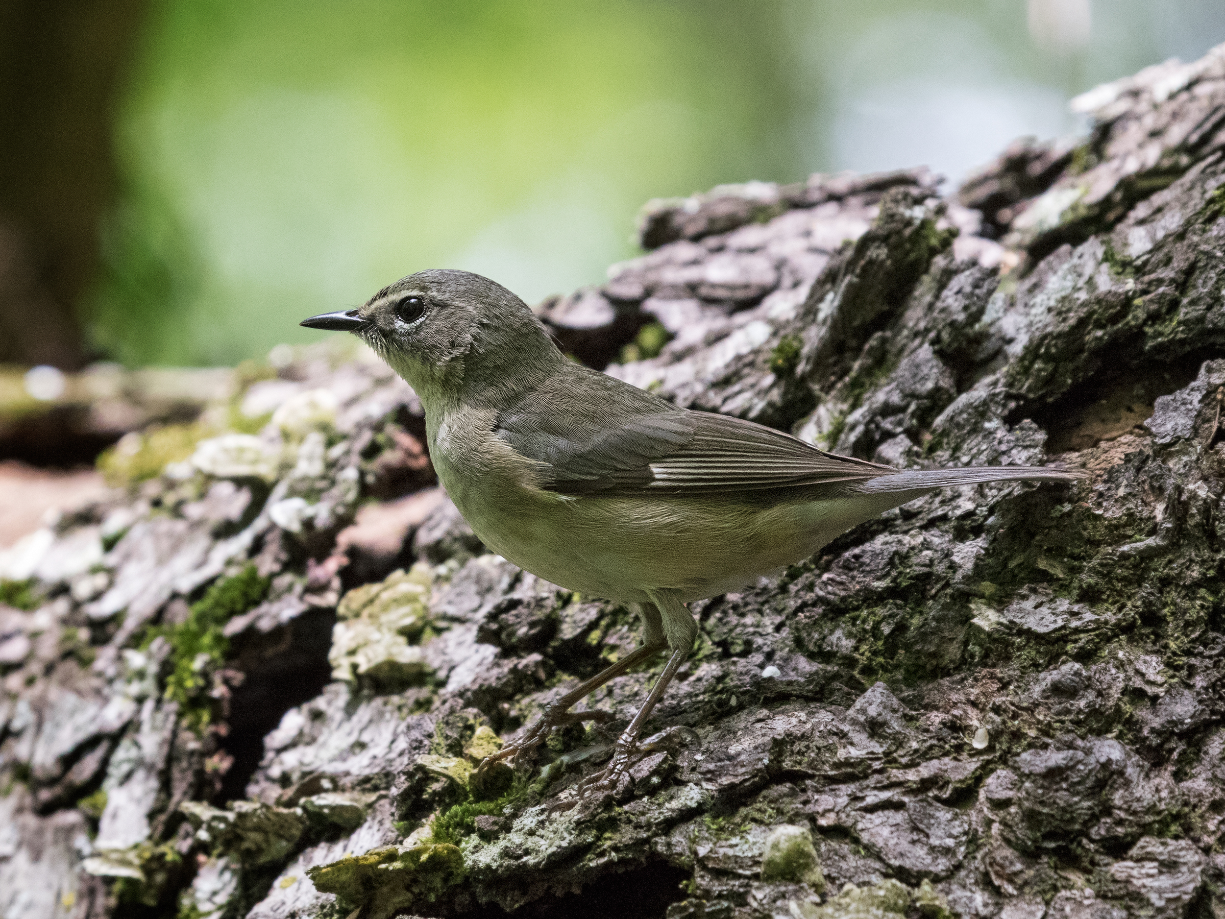 Female Black-throated Blue Warbler Setophaga caerulescens foraging for termites at the John Heinz National Wildlife Refuge.